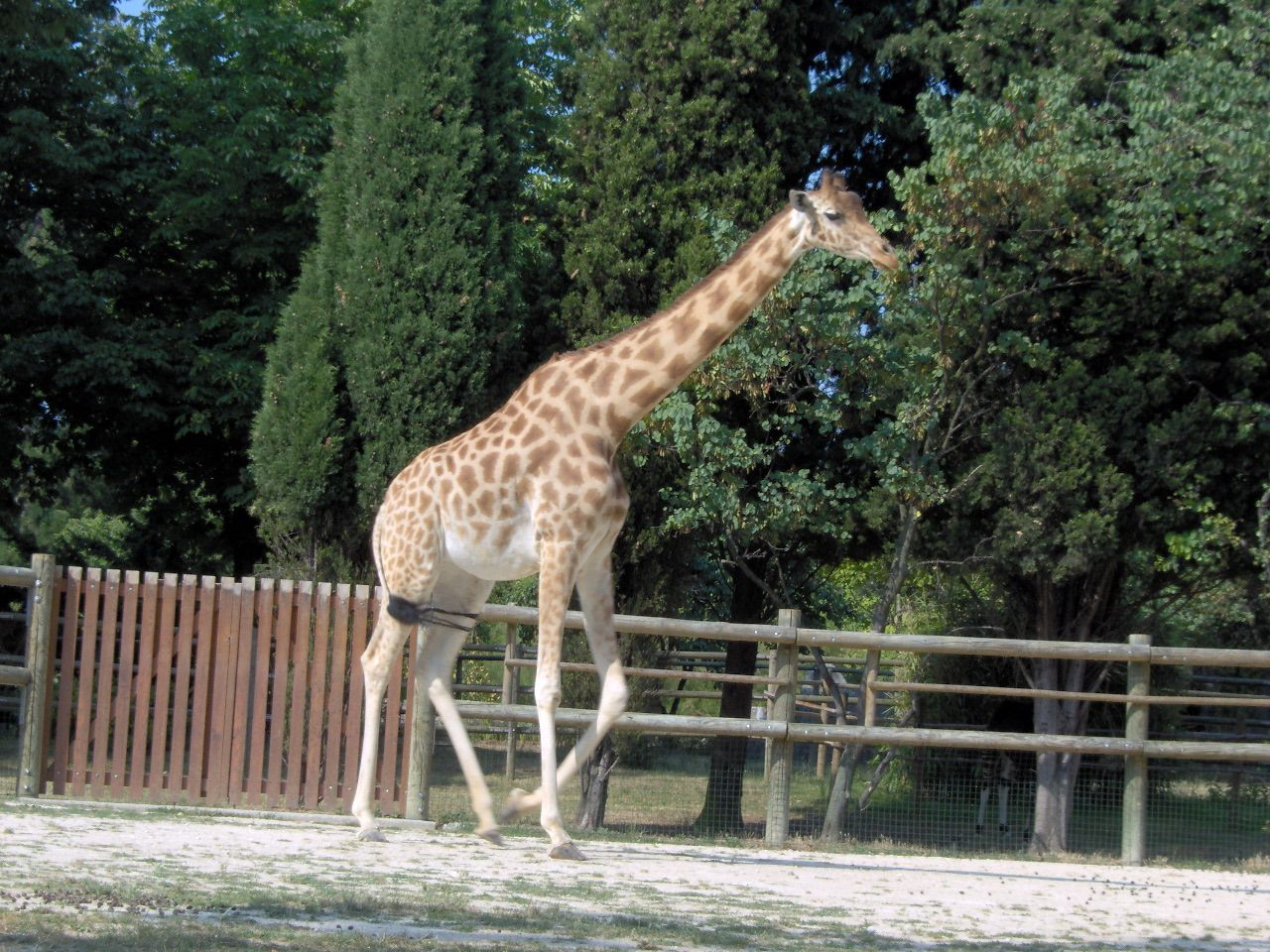 Kordofan Giraffe, Paris, Vincennes